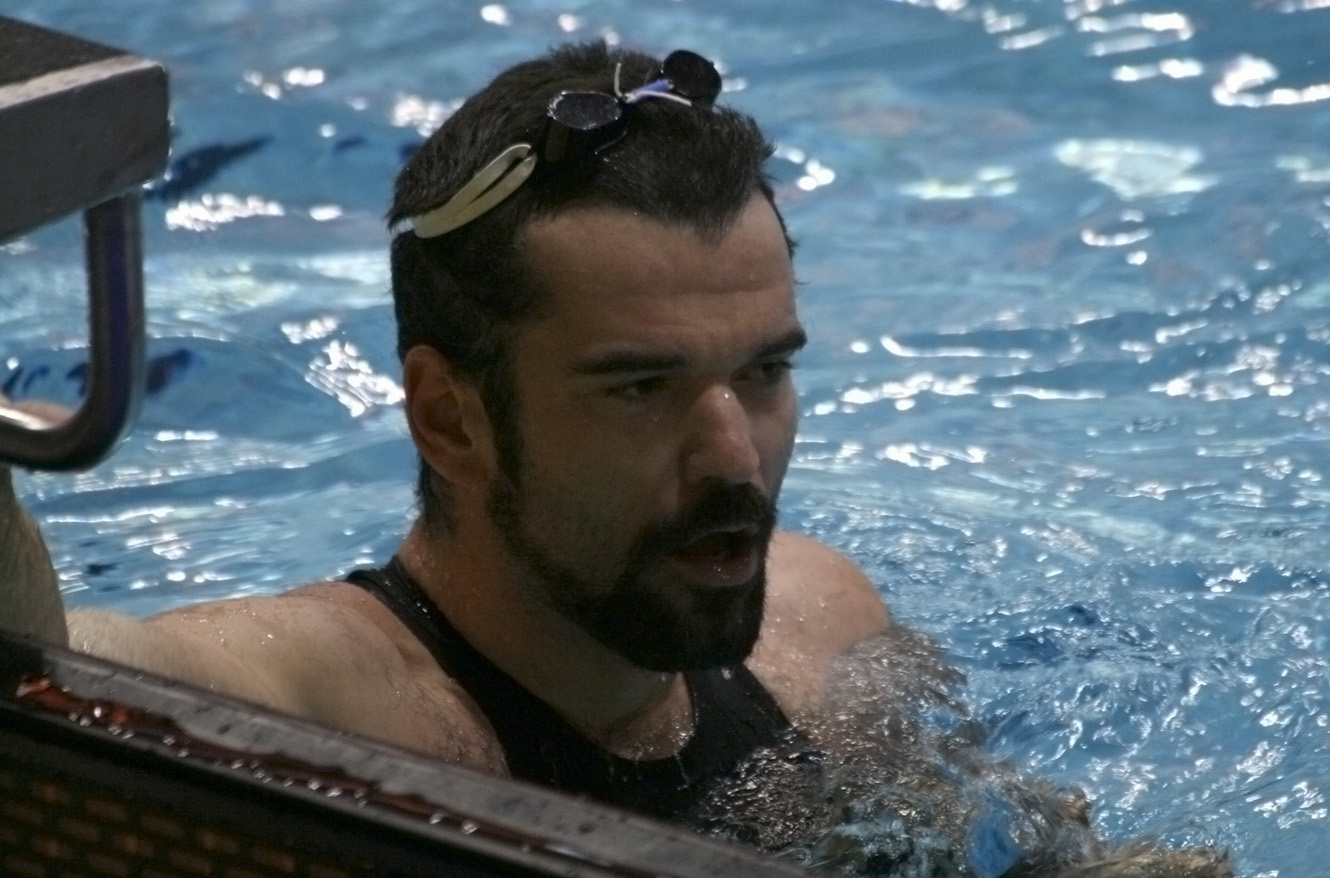 Swimmer Peter Mankoč at the 35th Ströck-Austrian Qualifying 2008 at the Wiener Stadthalle.